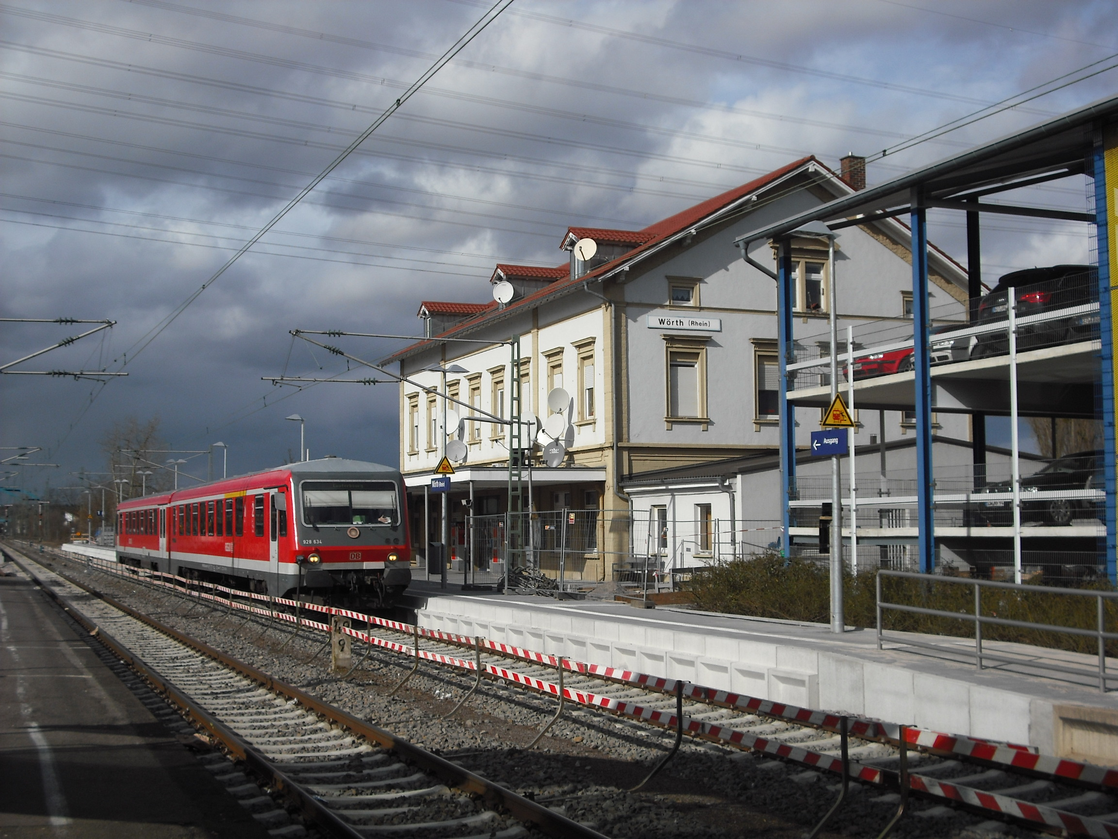 Woerth (Rhine) station